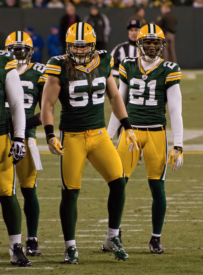 Chicago Bears vs. Green Bay Packers at Lambeau Field on December 25, 2011. Photo by Mike Morbeck.